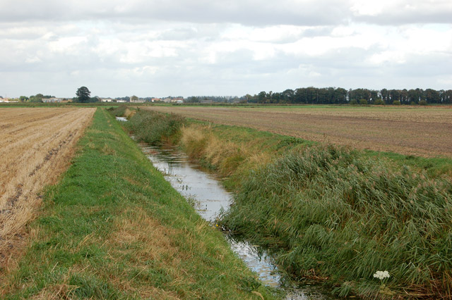 A fenland ditch on Harris Farm Looking north along a drainage ditch on Harris Farm. There is no public right of way on this arable farm: this photo was taken by kind permission of the farm manager.